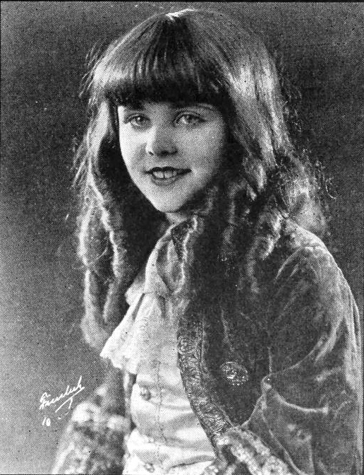 Actress Peggy Cartwright, who plays the young Clorinda in the American drama film A Lady of Quality (1924).